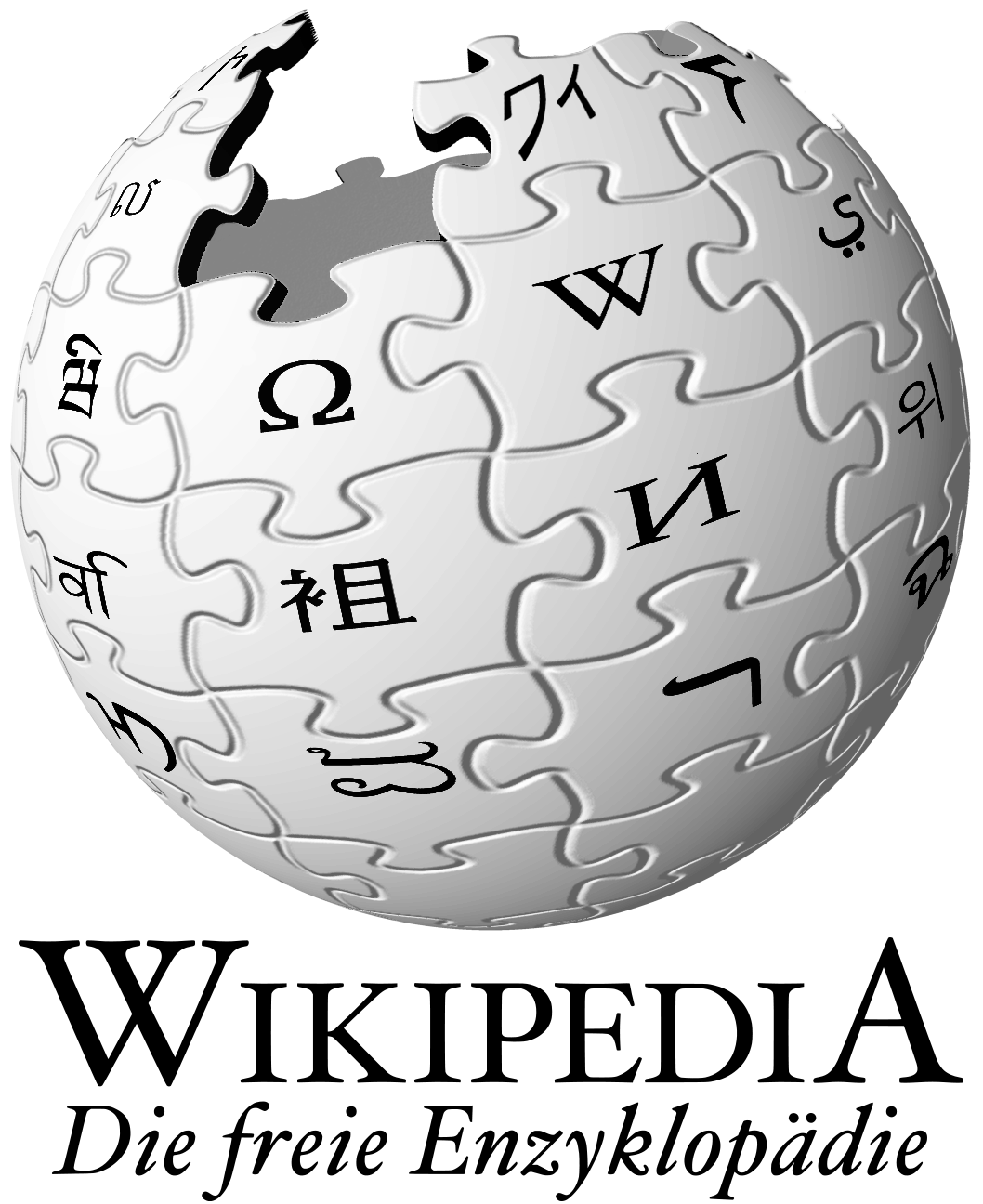 Logo of the German Wikipedia